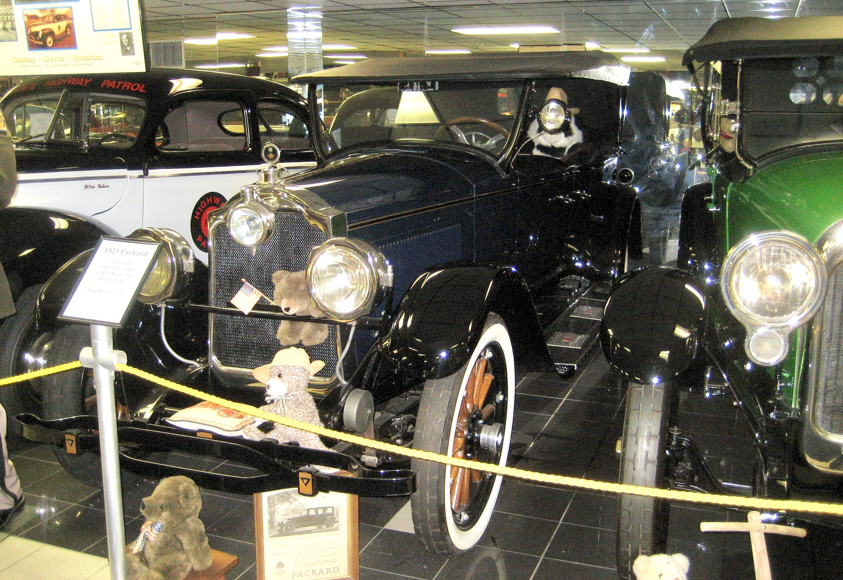 1923 Packard Single Six. on display at Tallahassee Automobile Museum with unfortunate accumulation of irrelevant kitsch. 5 passenger open top tourer 4 door, model 126. 6 cylinder 48hp engine.